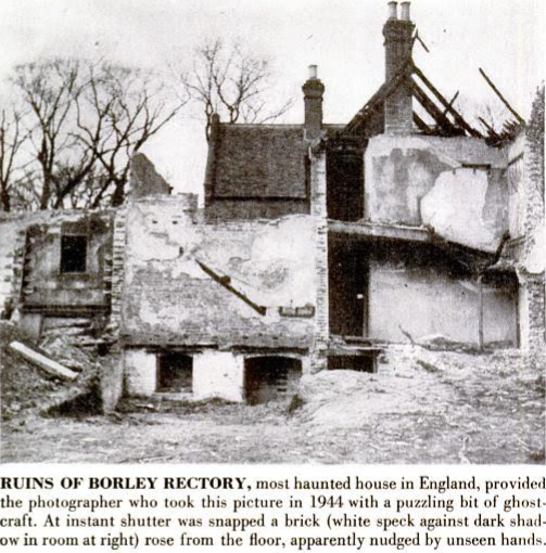 Photograph of the ruins of Borley Rectory, taken in 1944.